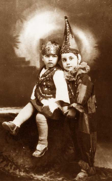 Children in clothing for Pročka (Clean Monday) in 1928. Skopje, Macedonia